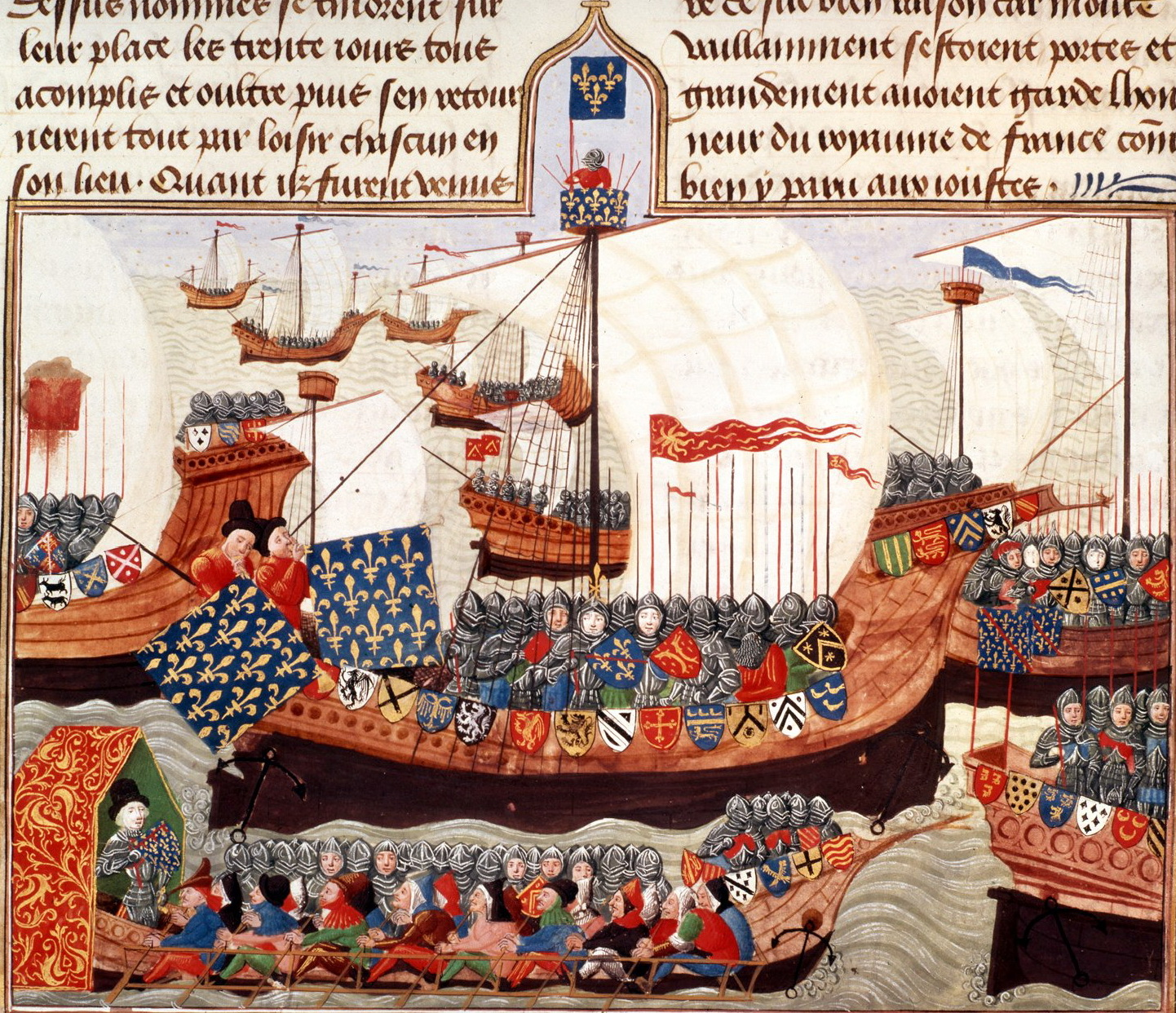 Mahdian Crusade 1390: The Crusade-fleet with her leader, the Duke of Bourbon, and the Oriflamme. (British Library, Harley 4379 f. 60v)